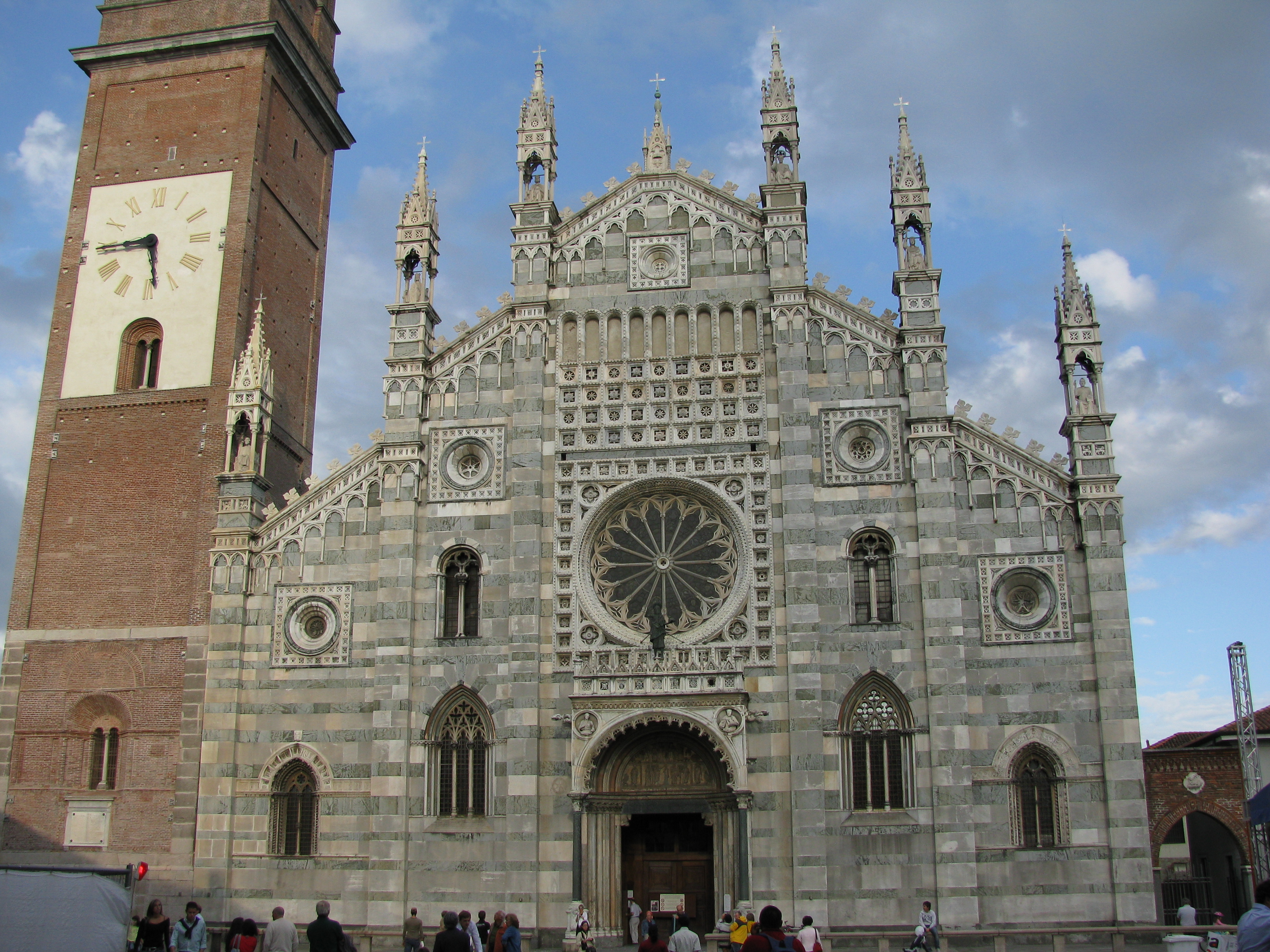 The "Duomo" of Monza (italy)